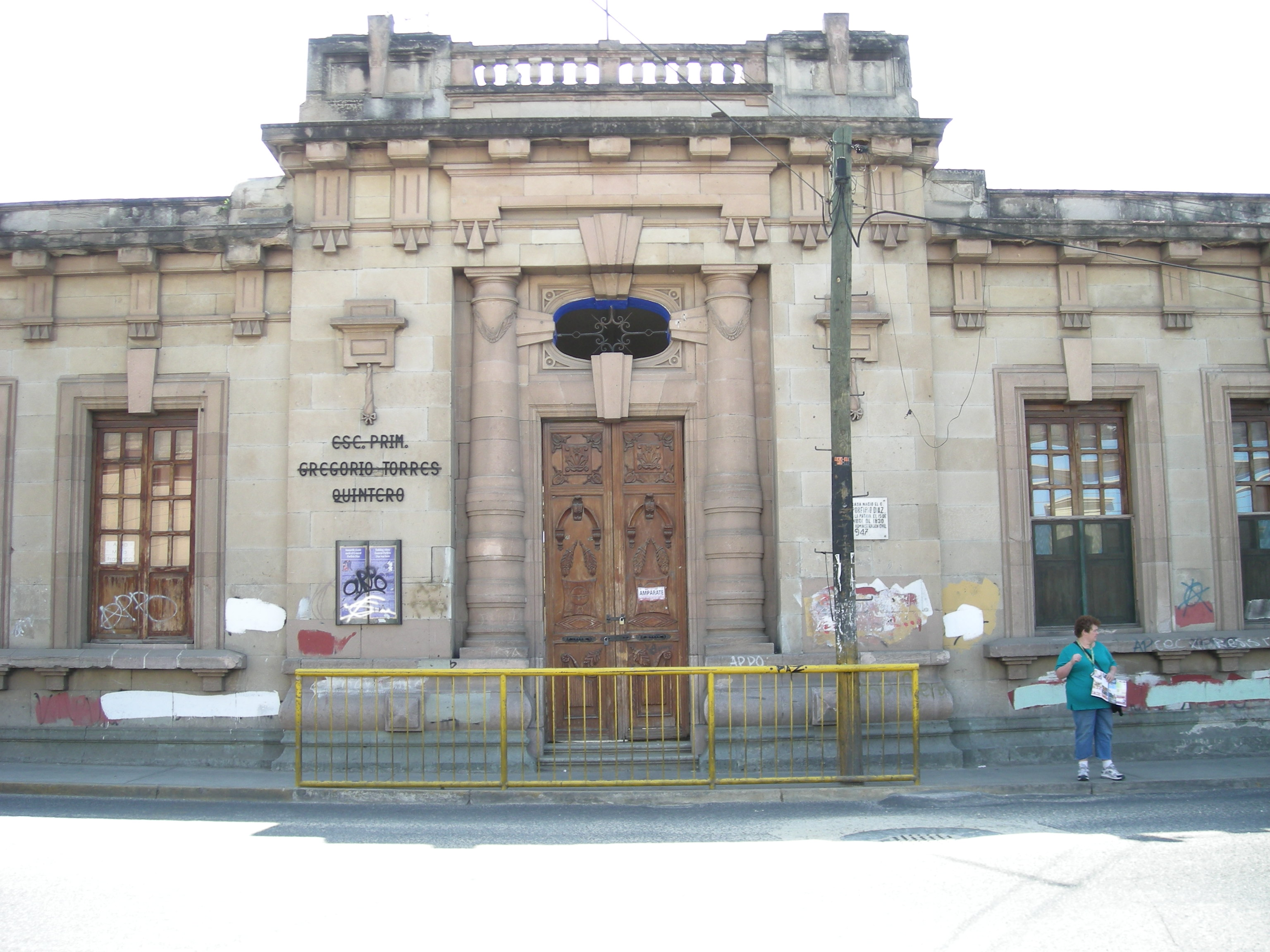 Birthplace of Mexican president Porfirio Diaz located in the city of Oaxaca in Mexico